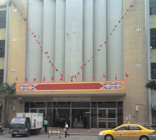 Criminal Division Building of Taiwan High Court